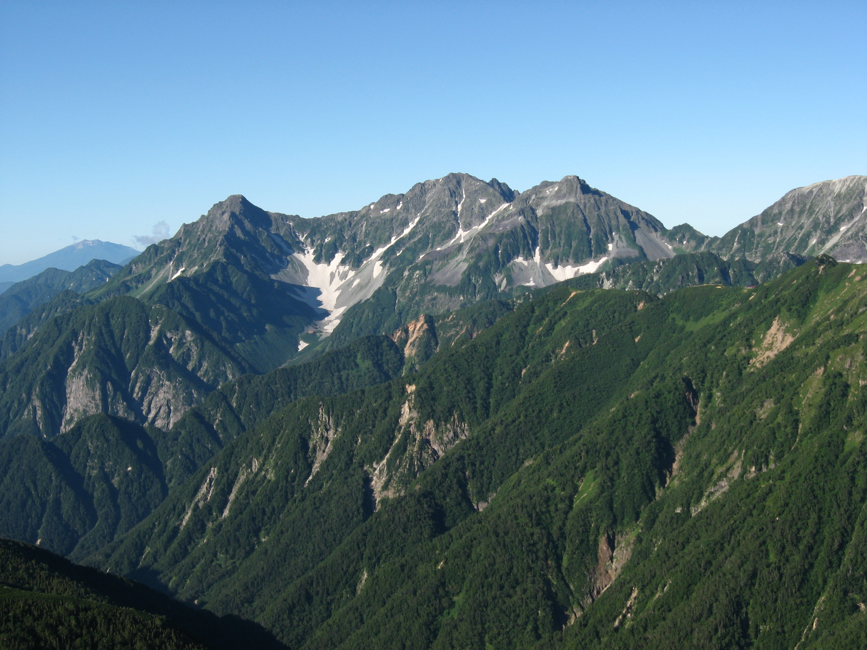 Hotaka-peaks as seen from Jonen-range, Nagano, Japan.